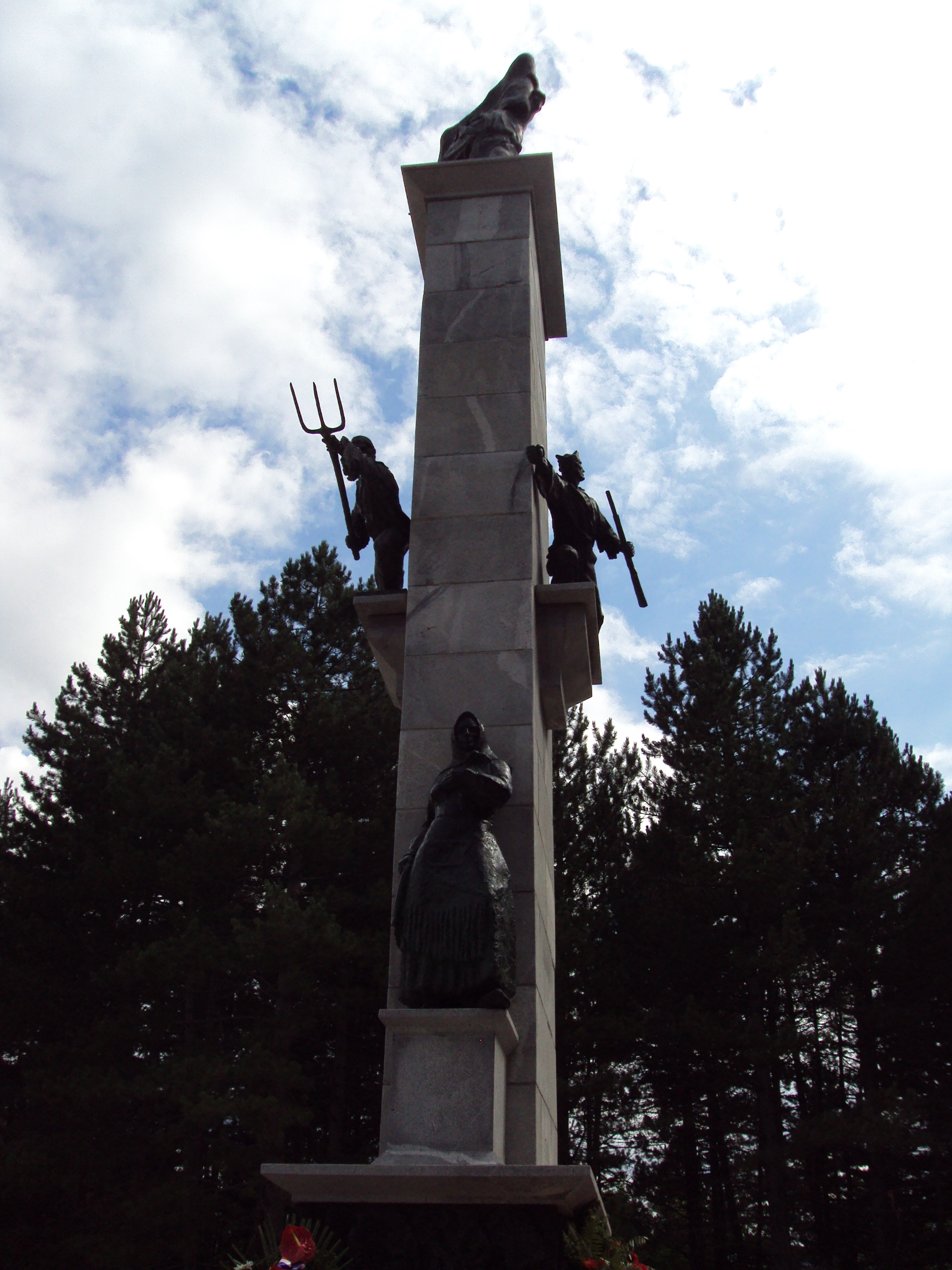 Monument to the Uprising of the people of Croatia in Srb, Lika. Designed by Vanja Radauš; built in 1951, destroyed in 1995, rebuilt in 2011.